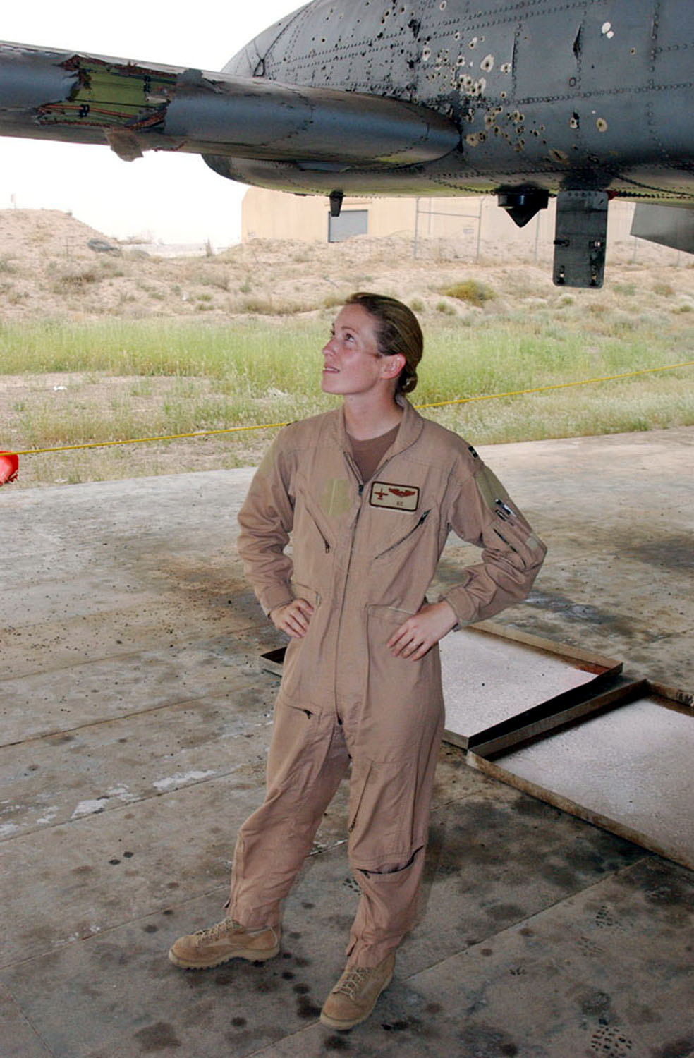 USAF Pilot Kim Campbell looks at her damaged A-10 Warthog[1] which she landed at her base after a mission over Baghdad in 2003.